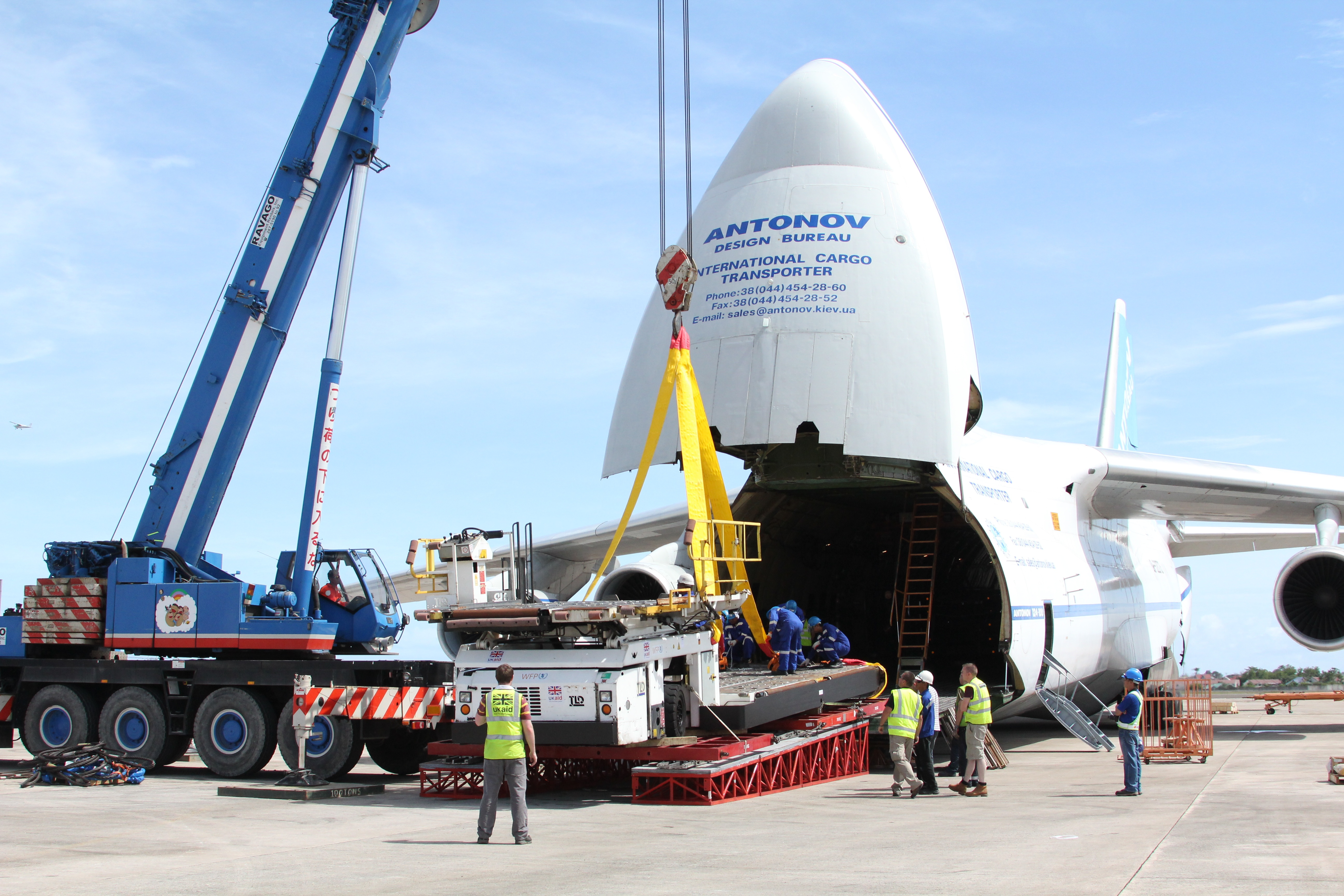 Vital cargo-handling equipment that will double the amount of aid that can flow through the Philippines' Cebu airport, is unloaded from an Antonov cargo plane chartered by the UK government. Cebu is now the country's aid hub following Typhoon Haiyan, The Antonov-124 - the world's third heaviest aircraft, capable of carrying 150 tons of cargo - was chartered by the UK to help the World Food Programme double the capacity of the airbase. Cebu is now at the heart of the global humanitarian response to the Philippines crisis, handling over 800 tons of cargo per day. The cargo on board, funded by the UK, included vital aircraft unloading kit, as well as a forklift, tow tractor, a Toyota Hi-Lux, oil and tools. Find out more about the UK's response to Typhoon Haiyan at: Picture: Russell Watkins/Department for International Development